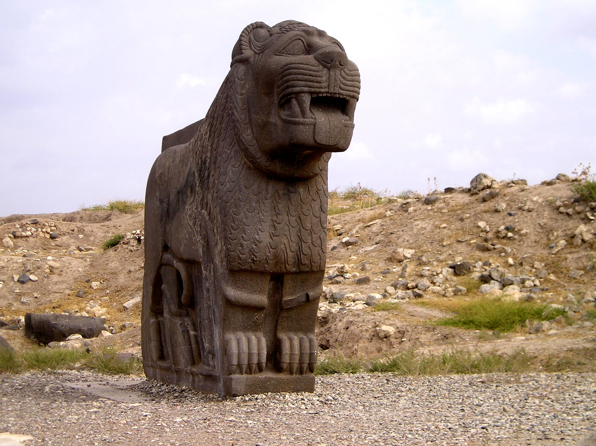 Ancient statue of lion — Ain Dara in Syria.